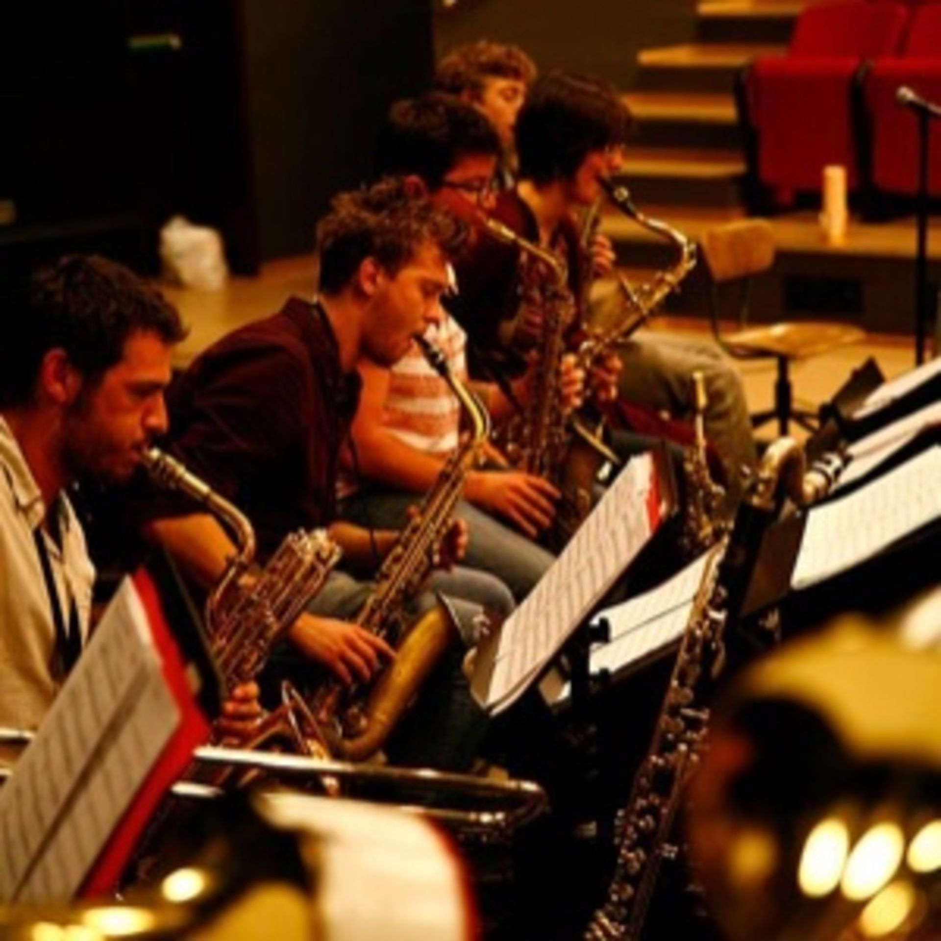 JM Jazz World Project